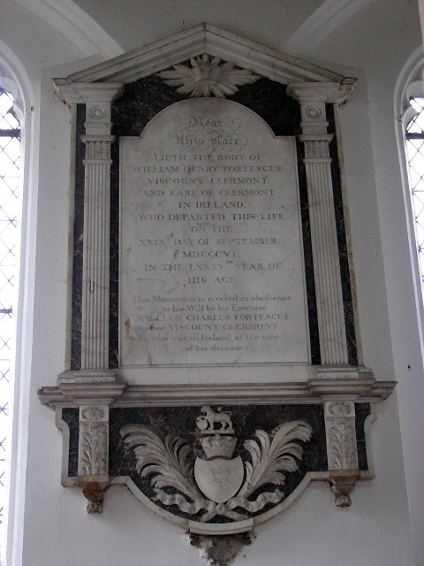 St Andrew's Church - wall monument To Viscount Clermont. The tower of St Andrew's church collapsed in the 18th century and the by then neglected building was patched up during the 1780s: a new west wall was built across the nave, making the church smaller. The entrance is through the old tower arch, across the lawn that used to be the western part of the nave. The doorway into the church is in the west wall. The church is open every day. For more information